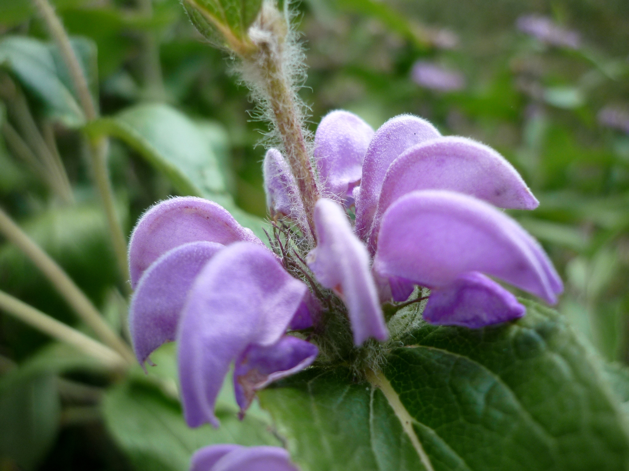 Phlomis herba-venti. In Navès (Solsonès-Catalunya). To 1.360 m. altitude